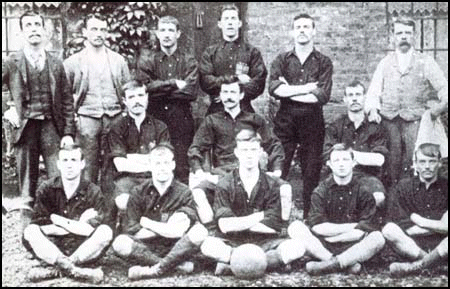 West Ham United football club founding image from en:1895. Left to right: Back Row: Arnold Hills (works owner), Francis Payne (club director), Unknown (possibly William Hickman), NA Graham, John Woods, Tom Robinson (trainer) Middle row: George Sage, Robert Stevenson, Thomas Freeman Bottom Row: Unknown (possibly William Chamberlain), NA French, Unknown, William Barnes, William Chapman Out of copyright in the UK. Used free of copyright in "Iron in the Blood: Thames Ironworks FC, the Club That Became West Ham United" by John Powles, ISBN 978-1899468225. Believed to now fall into Public Domain (various web sources also source same image without acknowledging copyright). All depicted are now deceased, as is the original photographer. Used as a source to depict the original Thames Ironworks F.C. squad that later went on to become West Ham Utd F.C. for the purpose of demonstrating both original kit colour, senior club players and officials.Koncorde 22:27, 20 May 2007 (UTC)